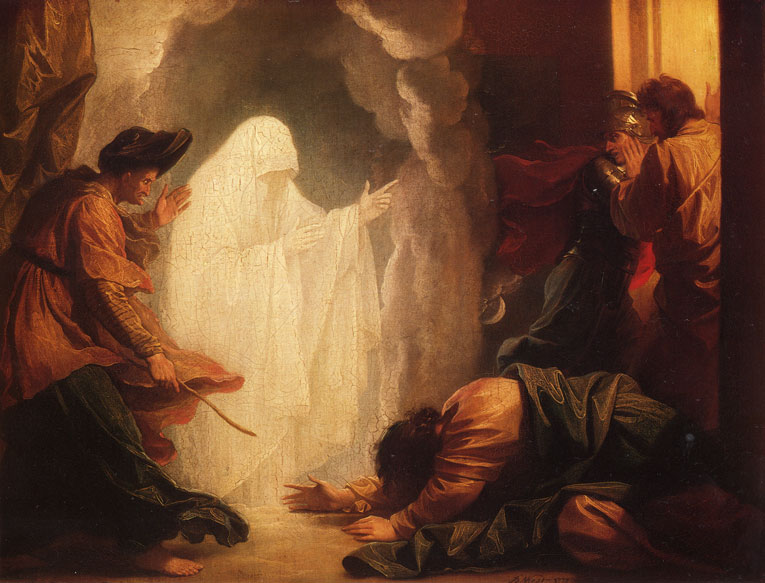 Saul and the Witch of Endor